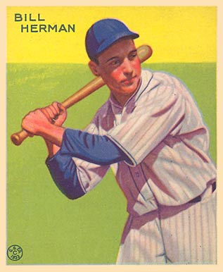 1933 Goudey baseball card of Billy Herman of the Chicago Cubs #227. PD-not-renewed.